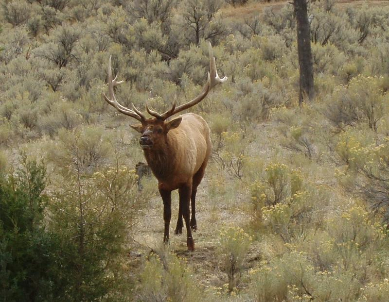 Bull Elk, Yellowstone National Park